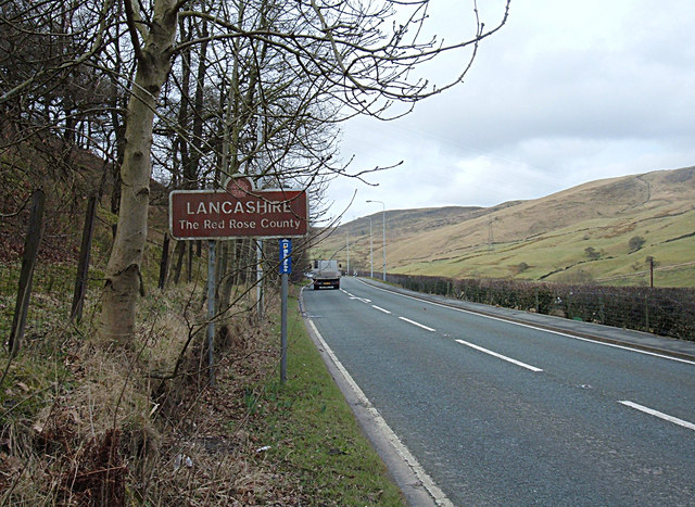 County Boundary, Portsmouth Here we are leaving Yorkshire's Portsmouth on the A646 (Burnley Road). There was a story in the papers some years ago about a lorry driver who ended up here instead of the place in Hampshire. It could happen to anyone I suppose.